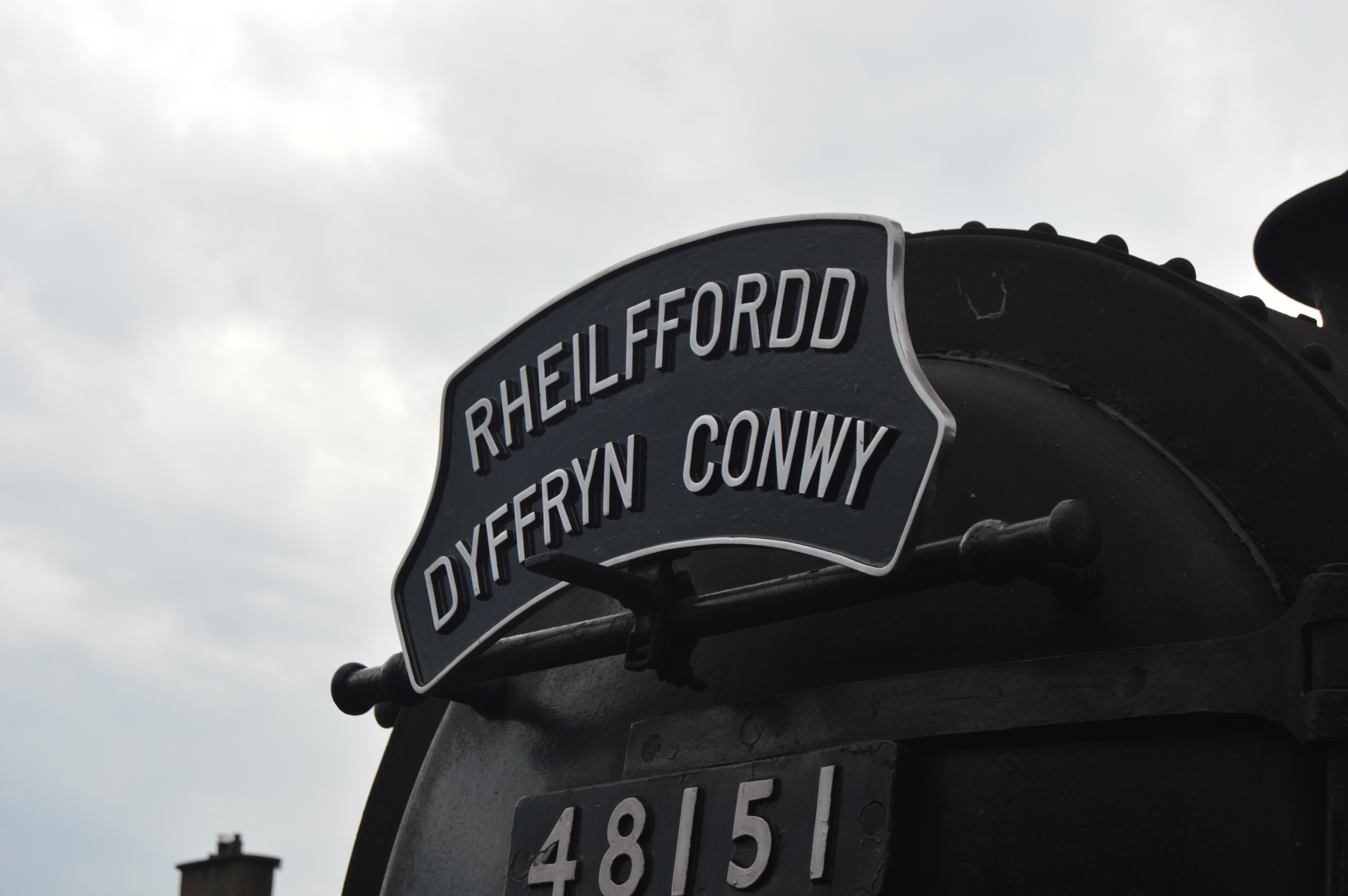 This was the headboard that was worn by the LMS 8F no 48151 during "The Conwy Quest" railtour which ran from Chester to Blaenau Ffestiniog via Llandudno Junction. Translated from Welsh to English the headboard says, Conwy Valley Railway.